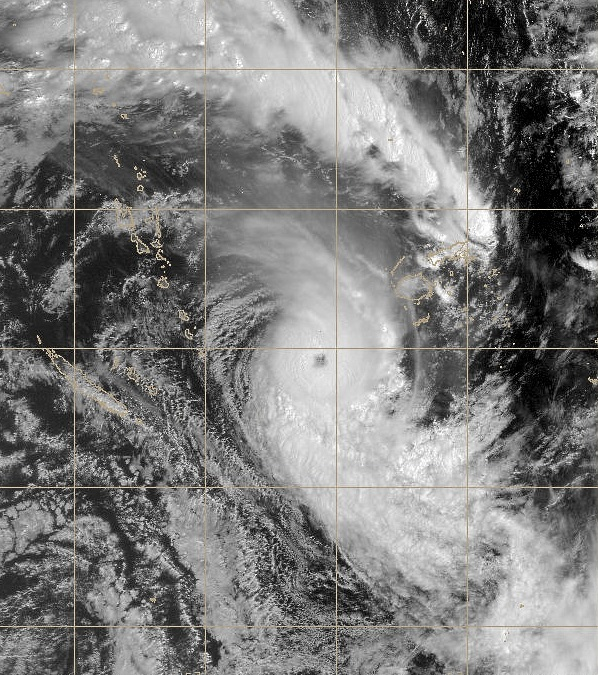 The Goes 11 satellote captured this visible, black and white image of Cyclone Funa at peak intensity, with an well defined eye on January 18, 2008.